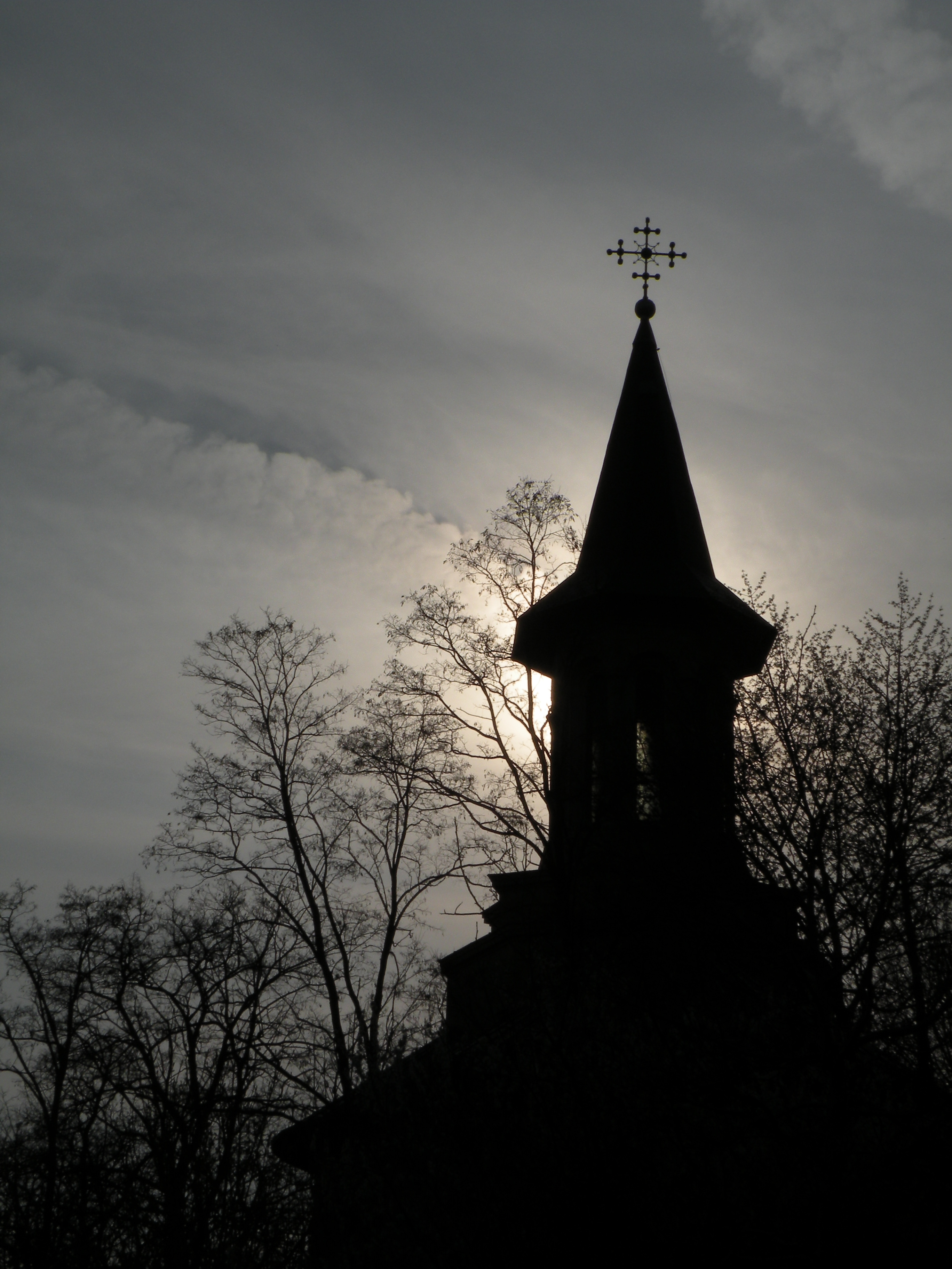 The "Flamanda" Church in Campulung Muscel, Romania